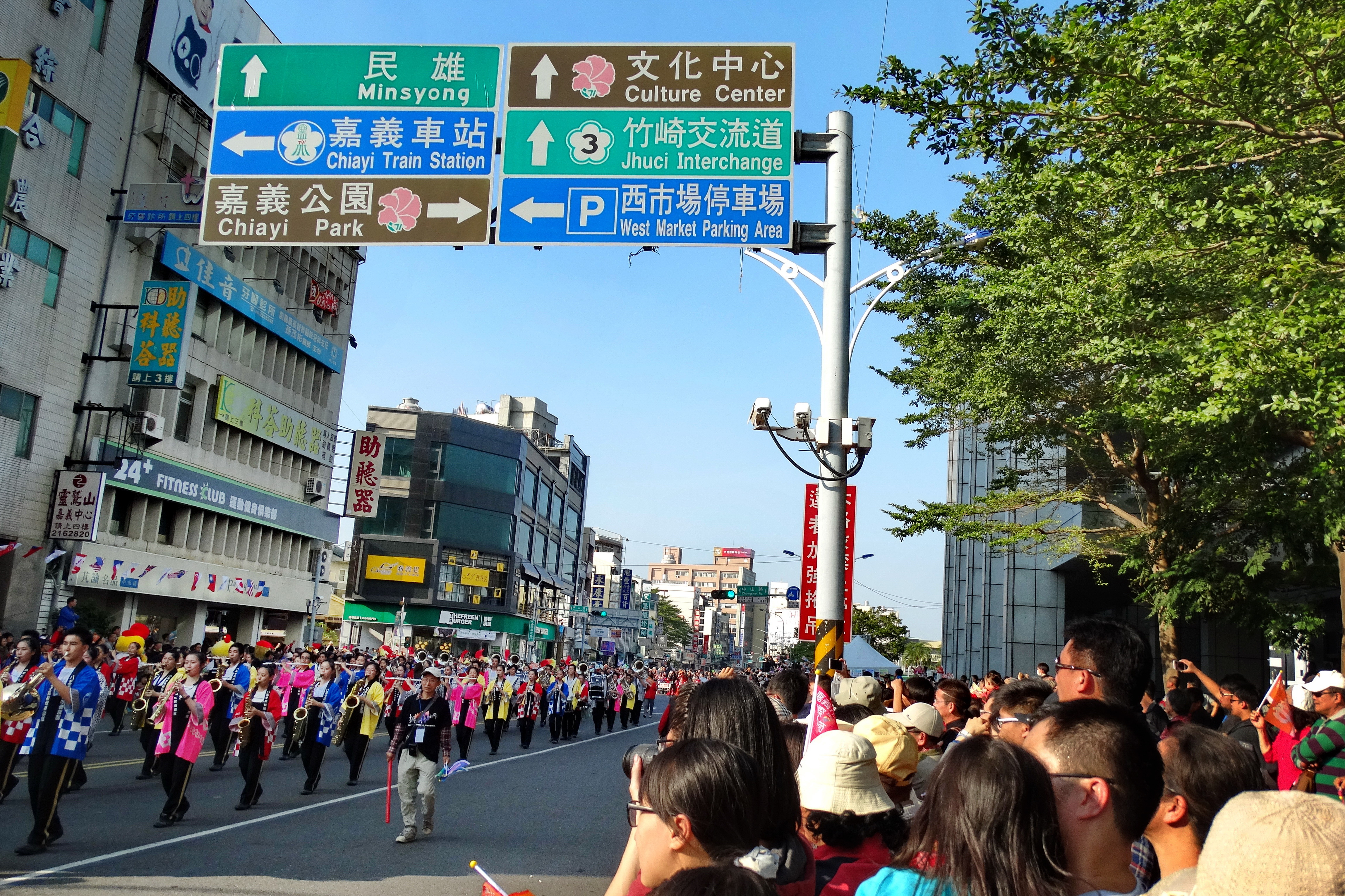 2015 Chiayi City International Band Festival, marching bands at Wufeng North Road near Zhongshan Road, Chiayi City, Taiwan.